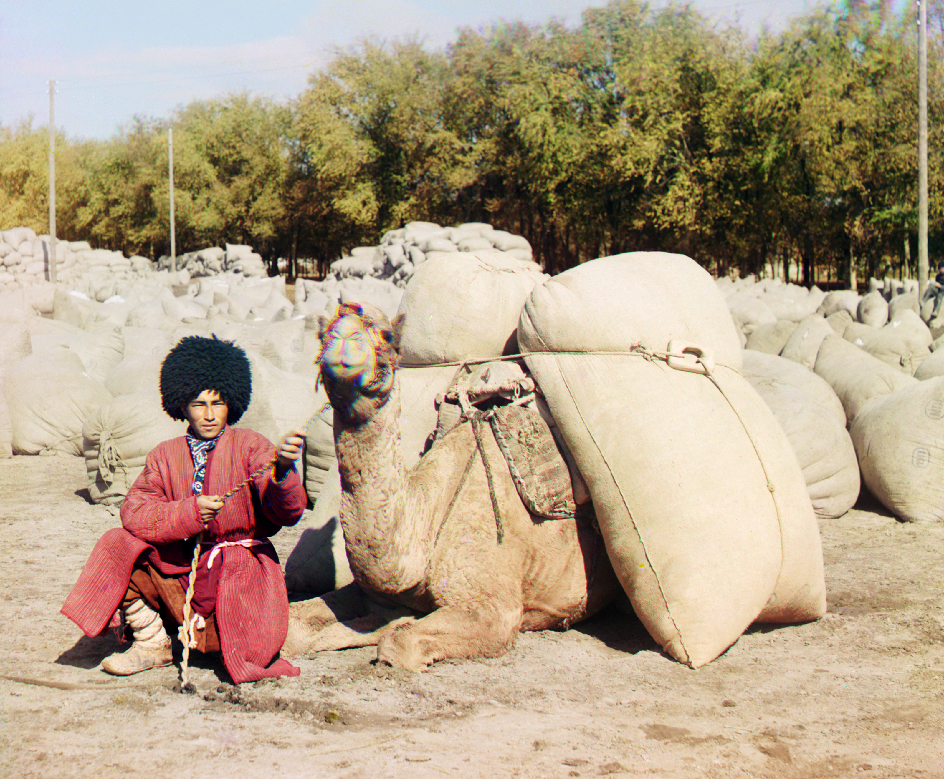 Turkmen man posing with camel loaded with sacks, probably of grain or cotton, Central Asia. The photograph was taken by Sergei Mikhailovich Prokudin-Gorskii between 1905 and 1915. The sacks in the background are thought to contain grain or cotton.